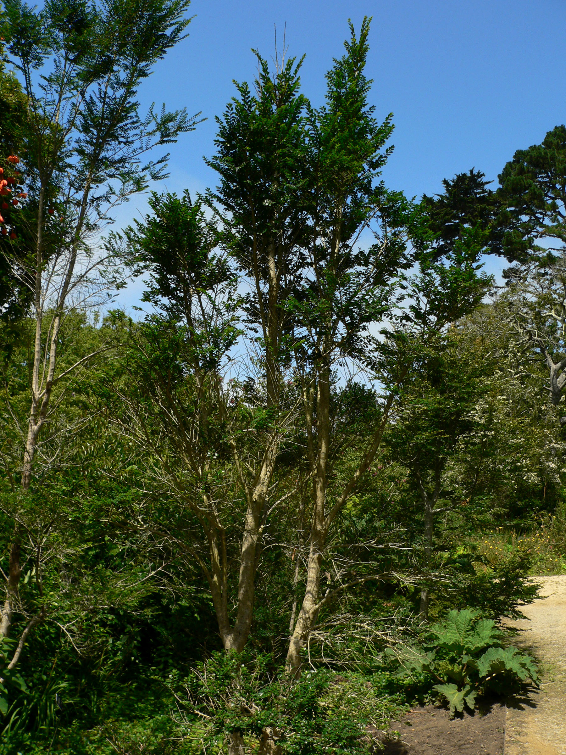 Azara microphylla at the San Francisco Botanical Garden